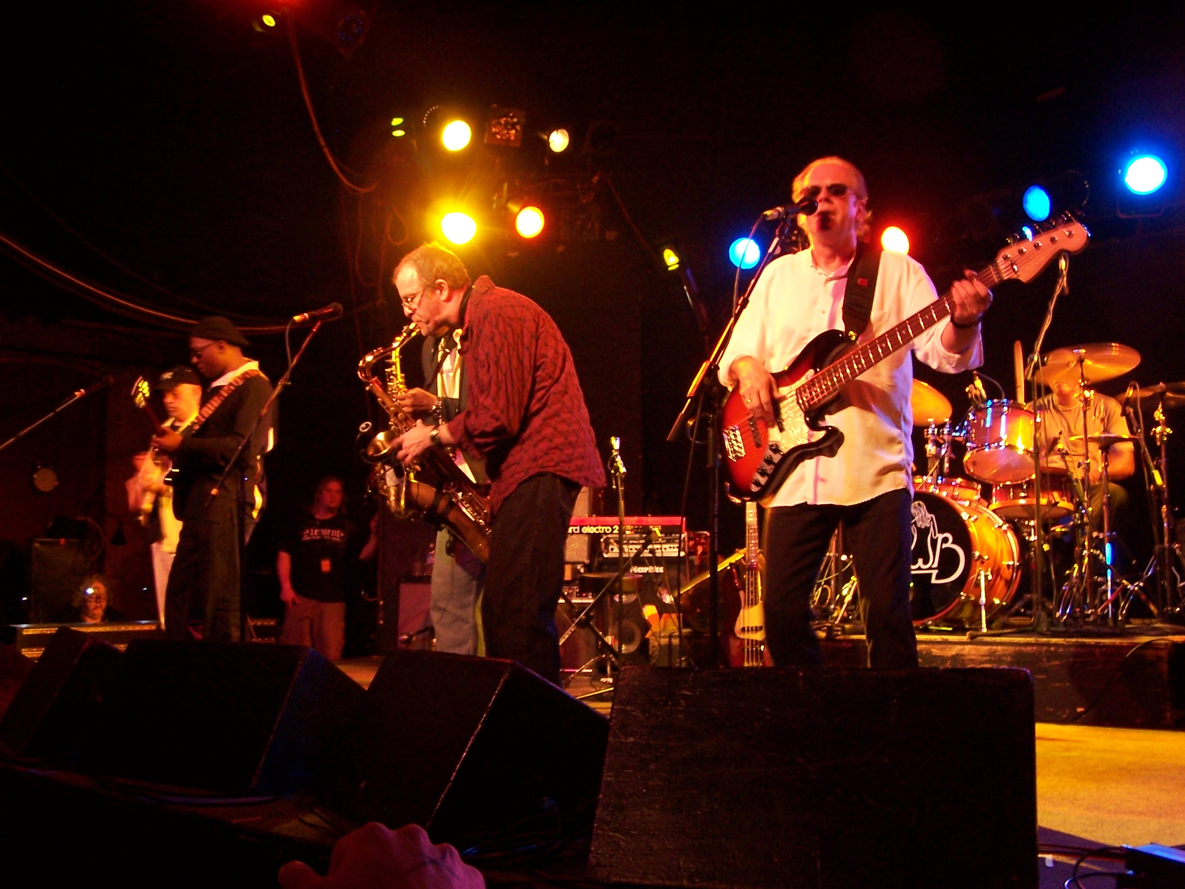 The Average White Band performs in Rochester, NY.